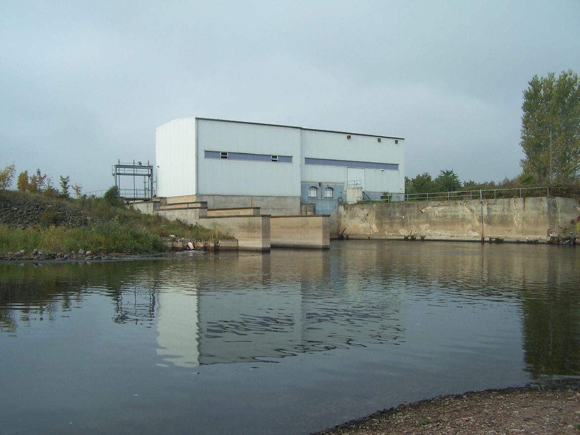 The power station in Berka.